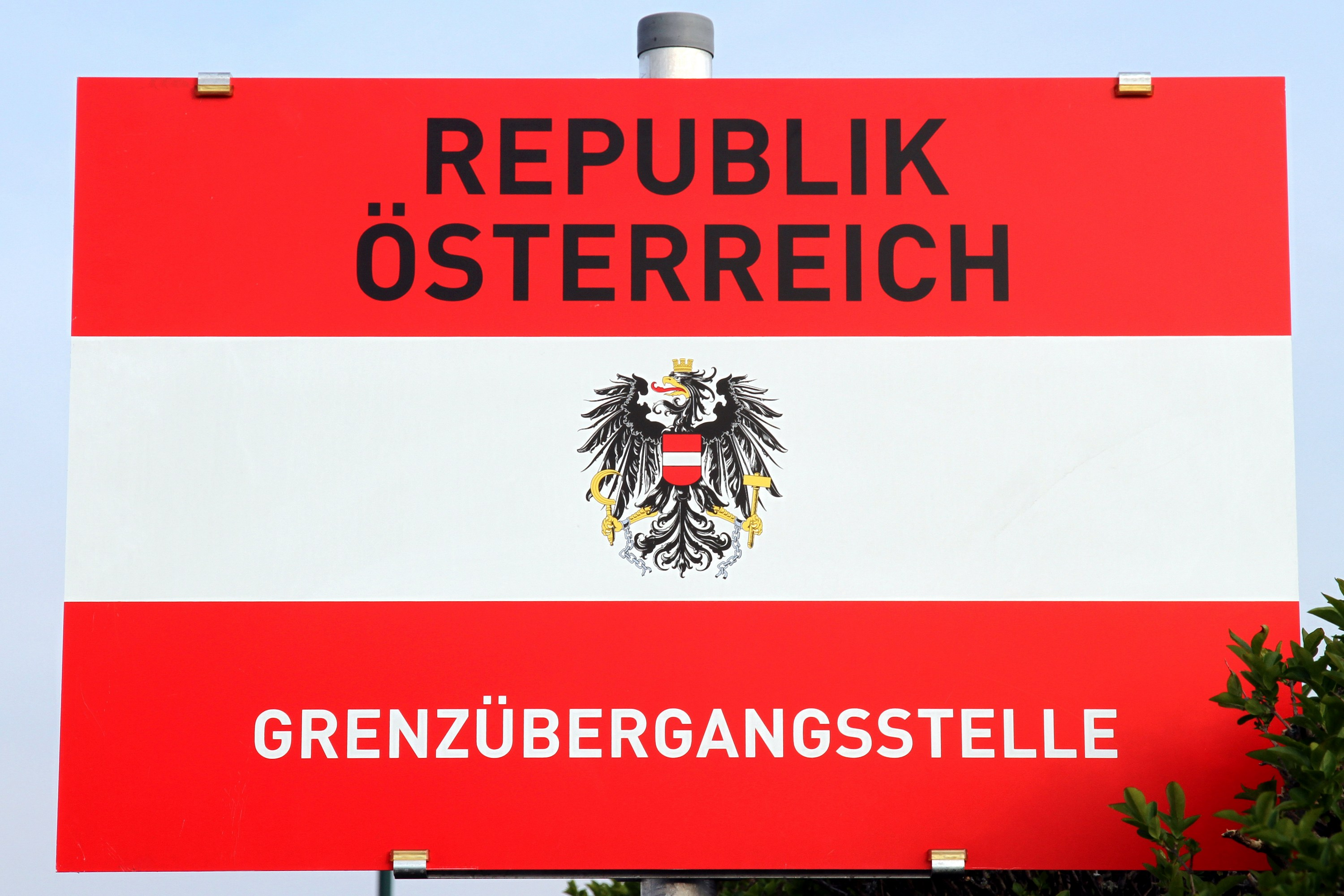 Austria-Hungary border - Schattendorf / Ágfalva